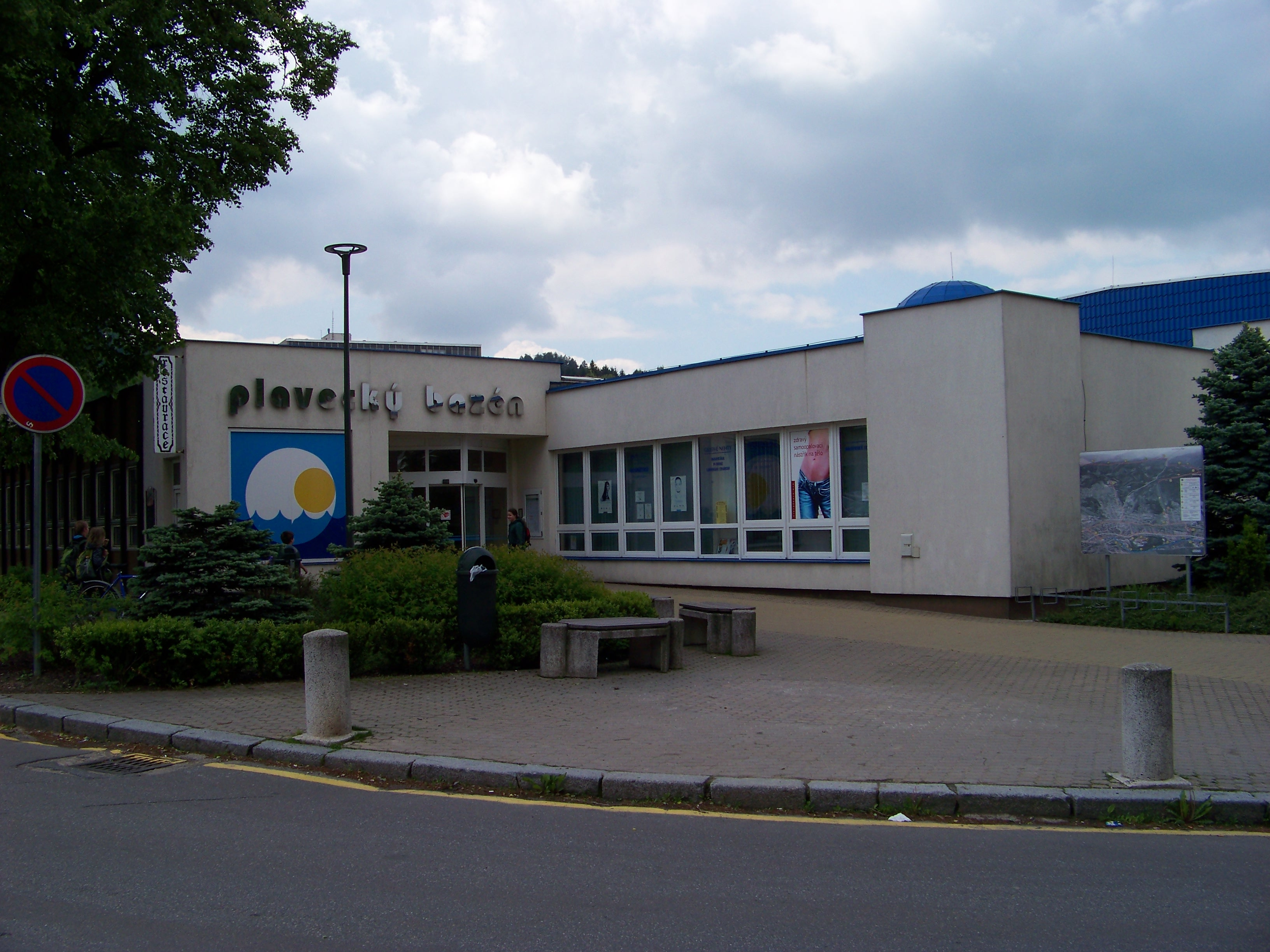 Česká Třebová-Parník, Ústí nad Orlicí District, Pardubice Region. U Teplárny 617, a swimming pool.